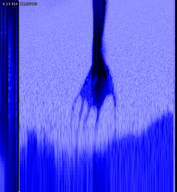 Spectrogram of a hidden image encoded as sound in a song. The track is the "leaked" version of My Violent Heart by Nine Inch Nails from the Year Zero album. The white line is 4:14 seconds into the song. The spectrogram is derived from a 320 kbit/s mp3 with comment "found in men's bathroom, stall 4, coliseum, lisbon, portugal" (so this is probably an exact copy of the original file).